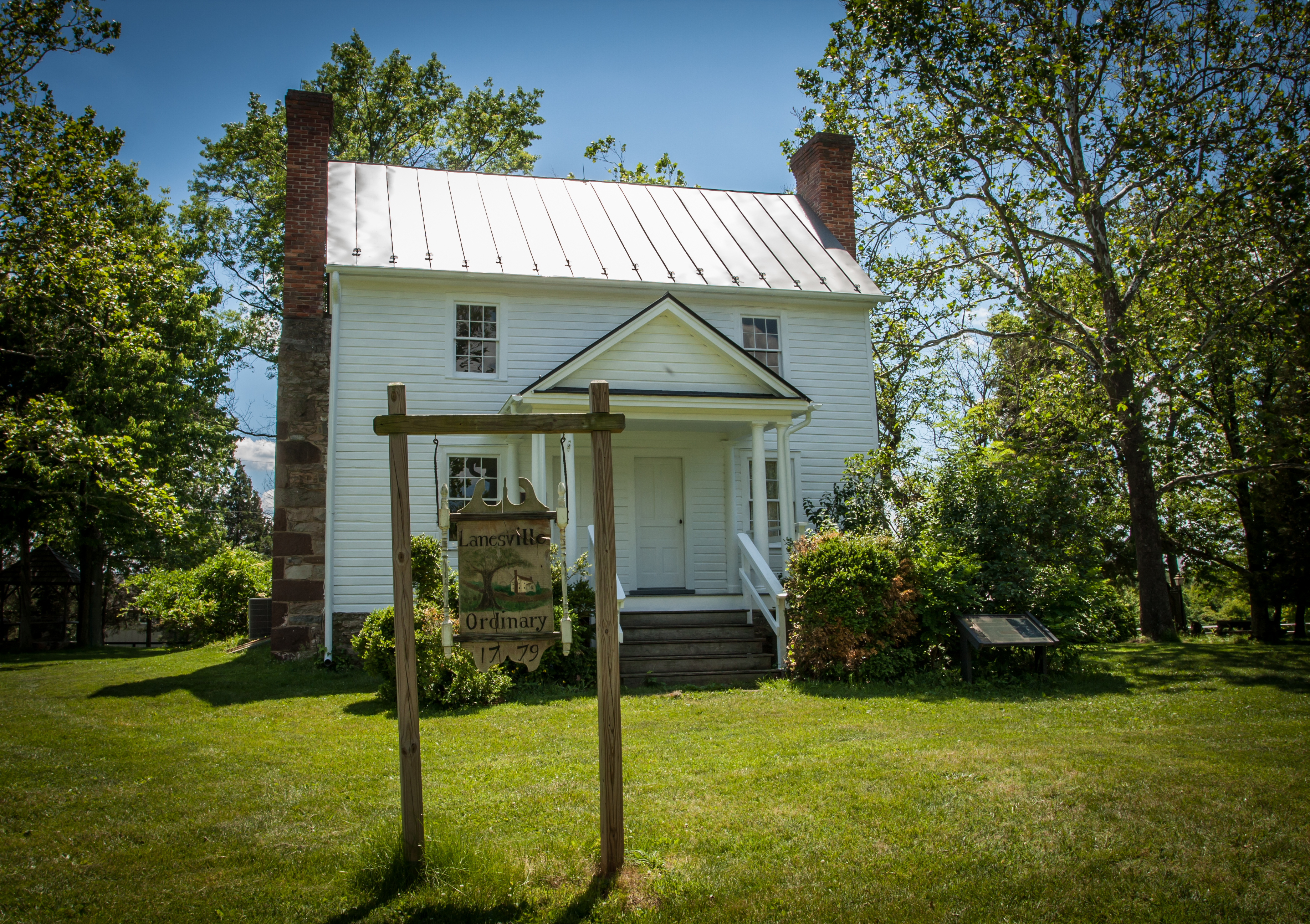 LanesvilleHouse_8106